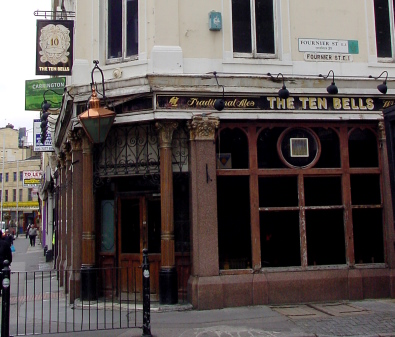 David Hardaway, October 2001